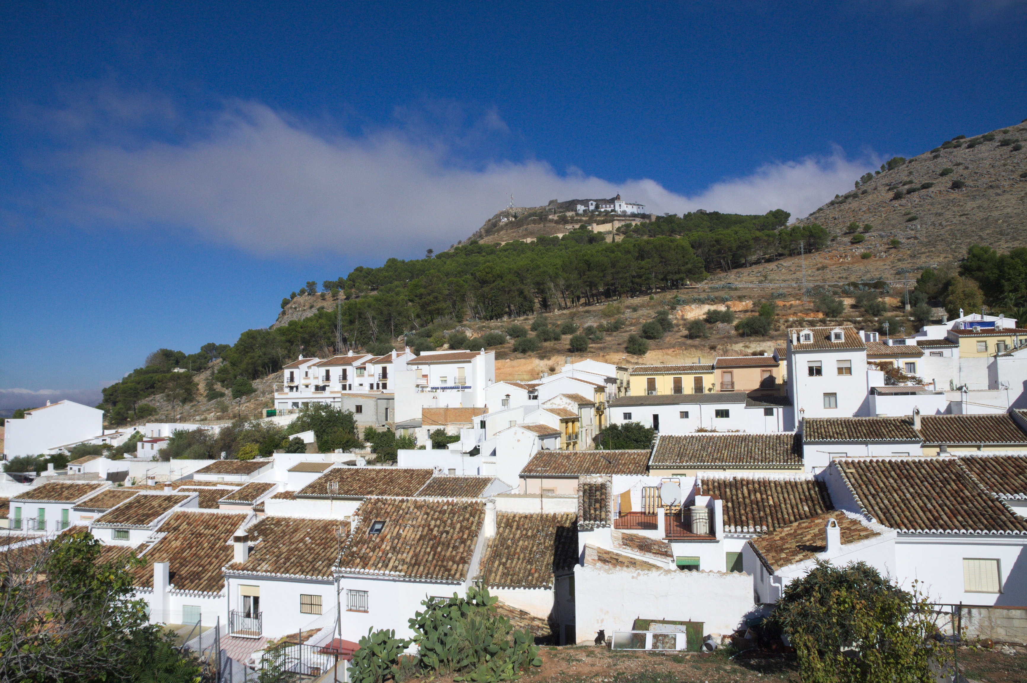 View of Archidona / Andalusia, Spain